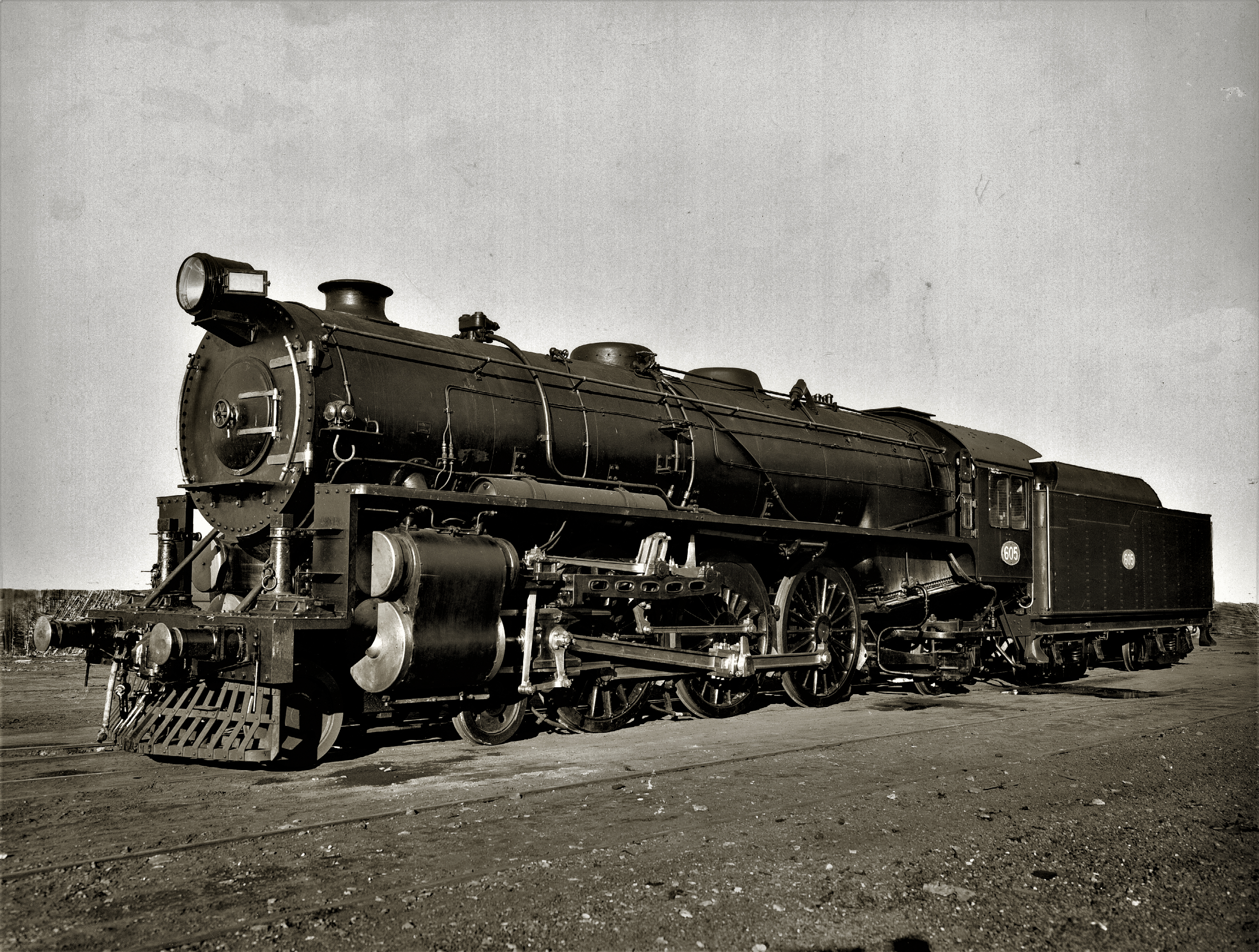 South Australian Railways 600 Class Locomotive No. 605. Approximately 1926. State Library of South Australia B 3992.